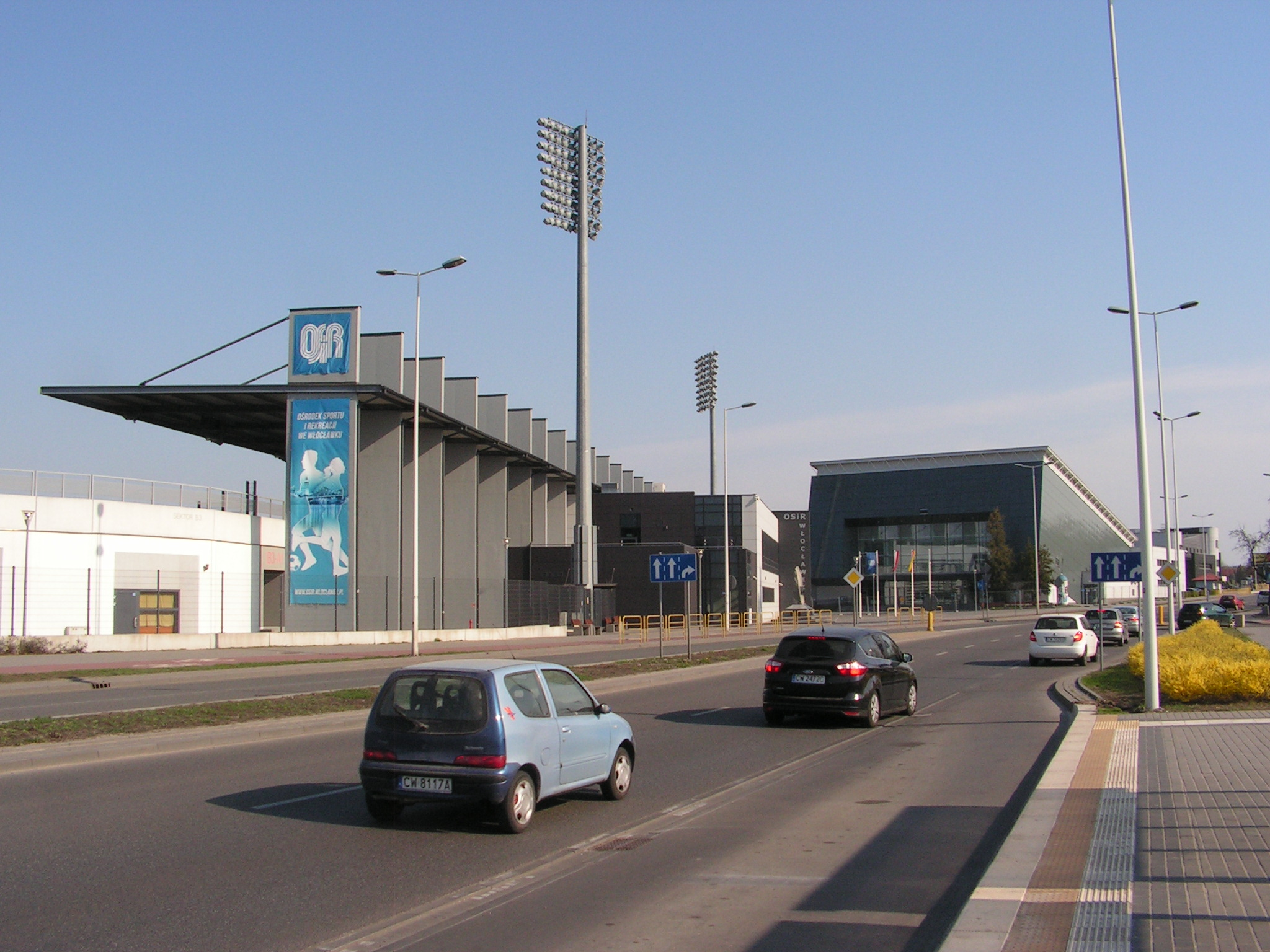 Chopin Avenue in Włocławek. On the foreground there is a OSiR (Ośrodek Sportu i Rekreacji - Sport and Recreation Centre) football-athletics stadium, rebuilt from 2011 to 2014 year. On the background there is a OSiR Hall, rebuilt from 2017 to 2018 year.